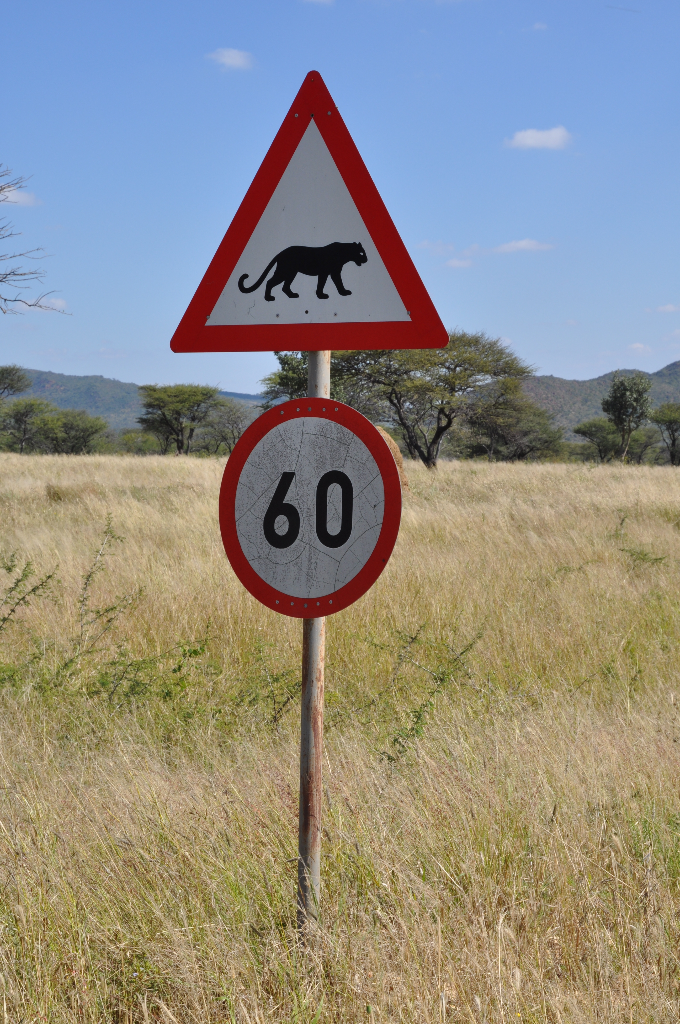 Road sign: Beware of leopards, Namibia